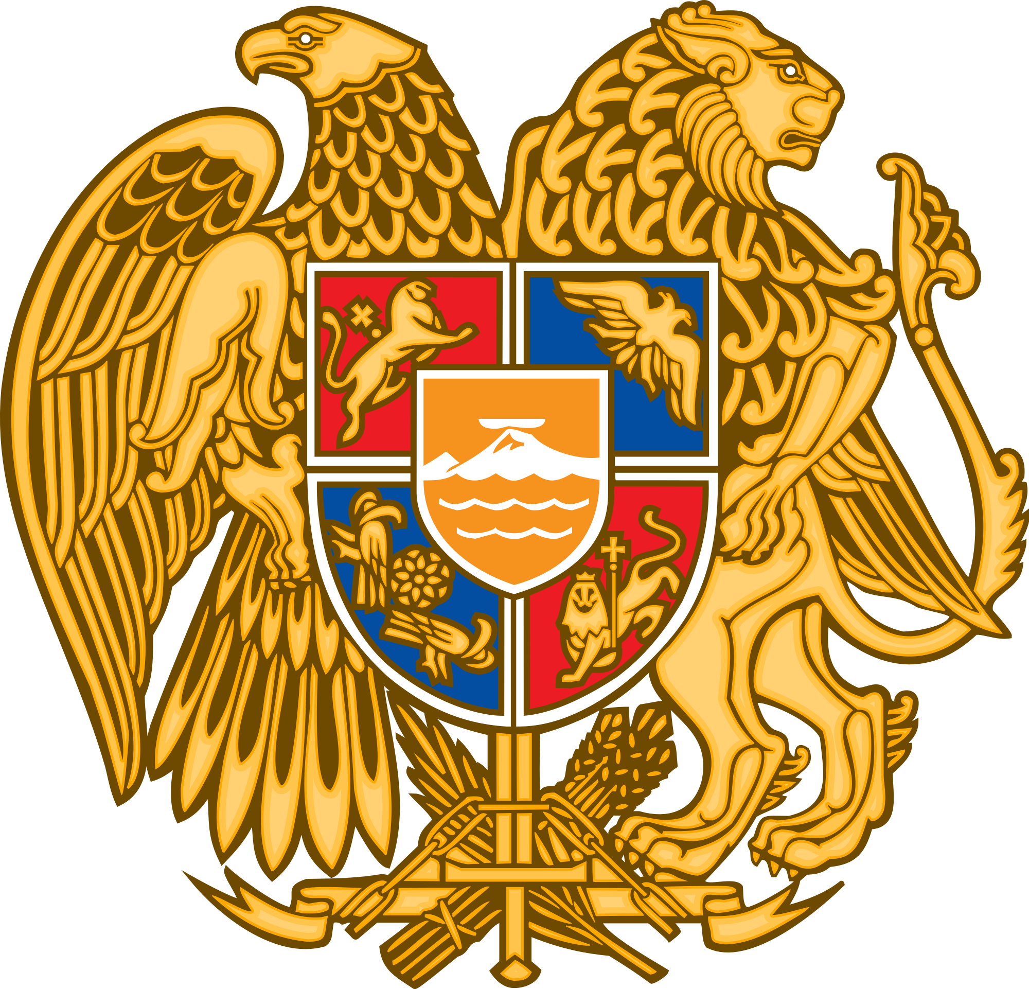 Armenia